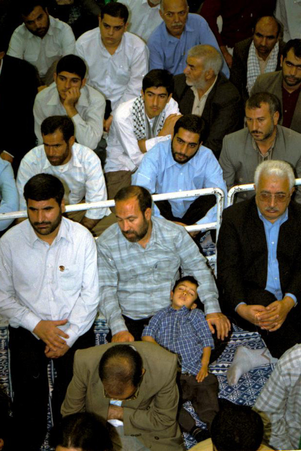 Ali Khamenei meeting with the families of the martyrs of the armed forces (13800704 0423916), a disabled sleeping child can be seen.